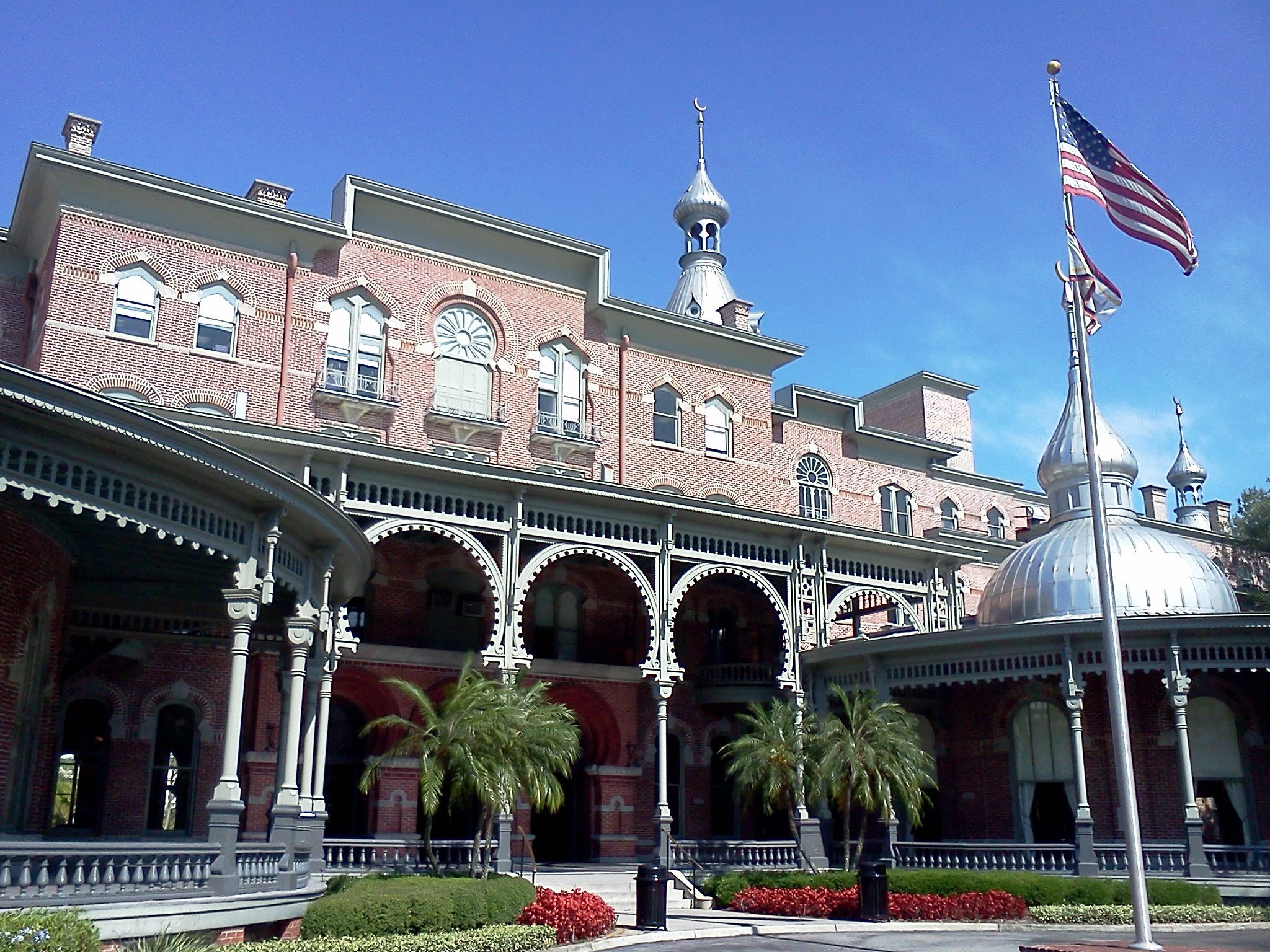 Henry B. Plant Museum, Hyde Park, Tampa